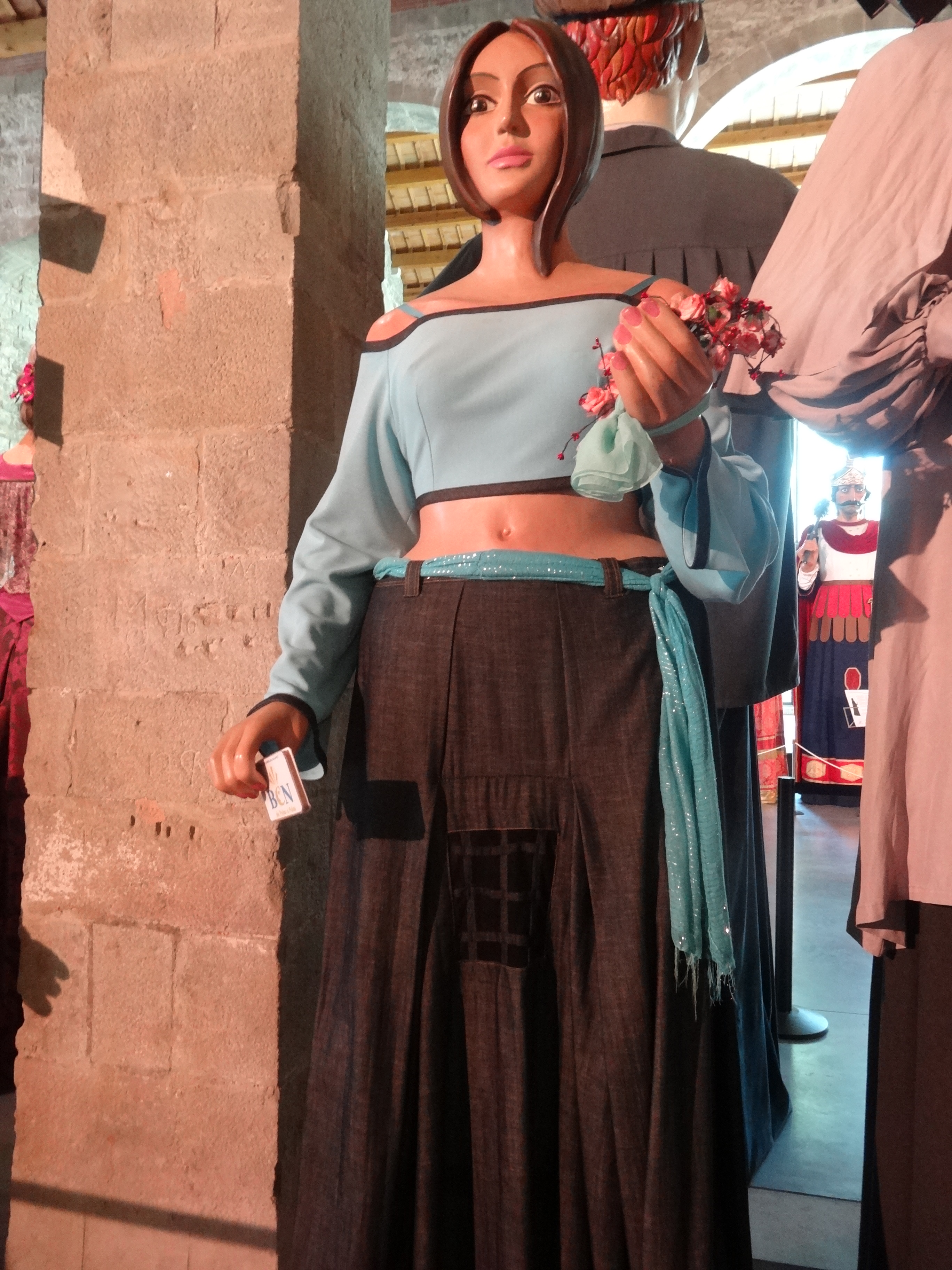 Exhibition of Giants at the Museu Marítim, Barcelona, 2013.